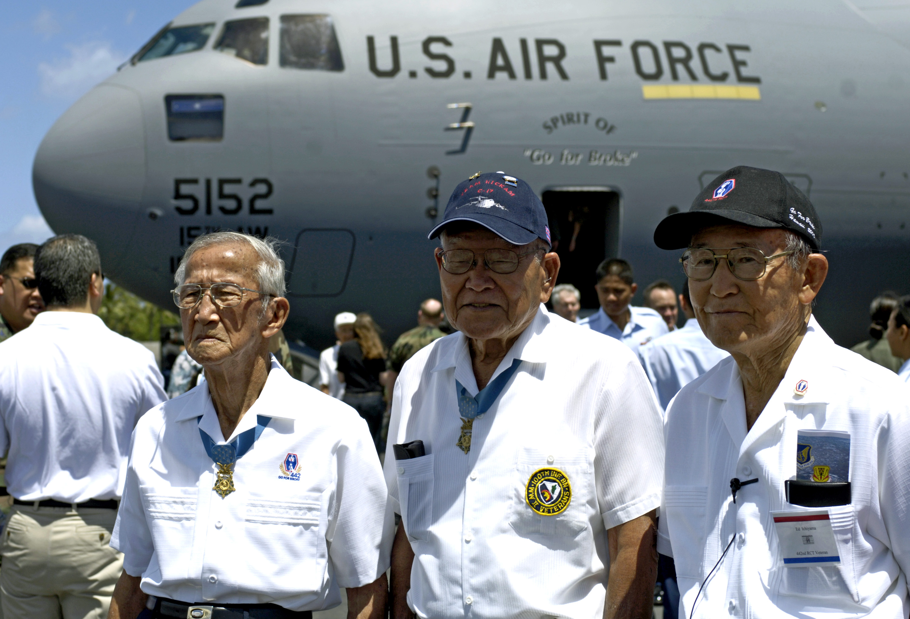 Barney Hajiro and Shizuya Hayashi, Medal of Honor recipients, and Ed Ichiyama pose in front of a C-17 Globemaster III named "The Spirit of 'Go for Broke'" during an arrival ceremony at Hickam Air Force Base, Hawaii, on Wednesday, June 14, 2006. The men are veterans of the 442nd Combat Regimental Team. The aircraft is named in honor of their unit.